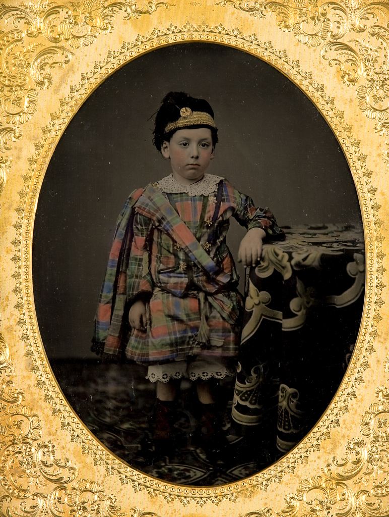 Part Of: Powerhouse Museum Collection General information about the Powerhouse Museum Collection is available at Persistent URL: Acquisition credit line: Purchased 1958